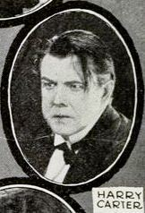 American actor Harry Carter from an ad for the American film The Kentucky Derby (1922), on page 19 of the November 11, 1922 Universal Weekly.